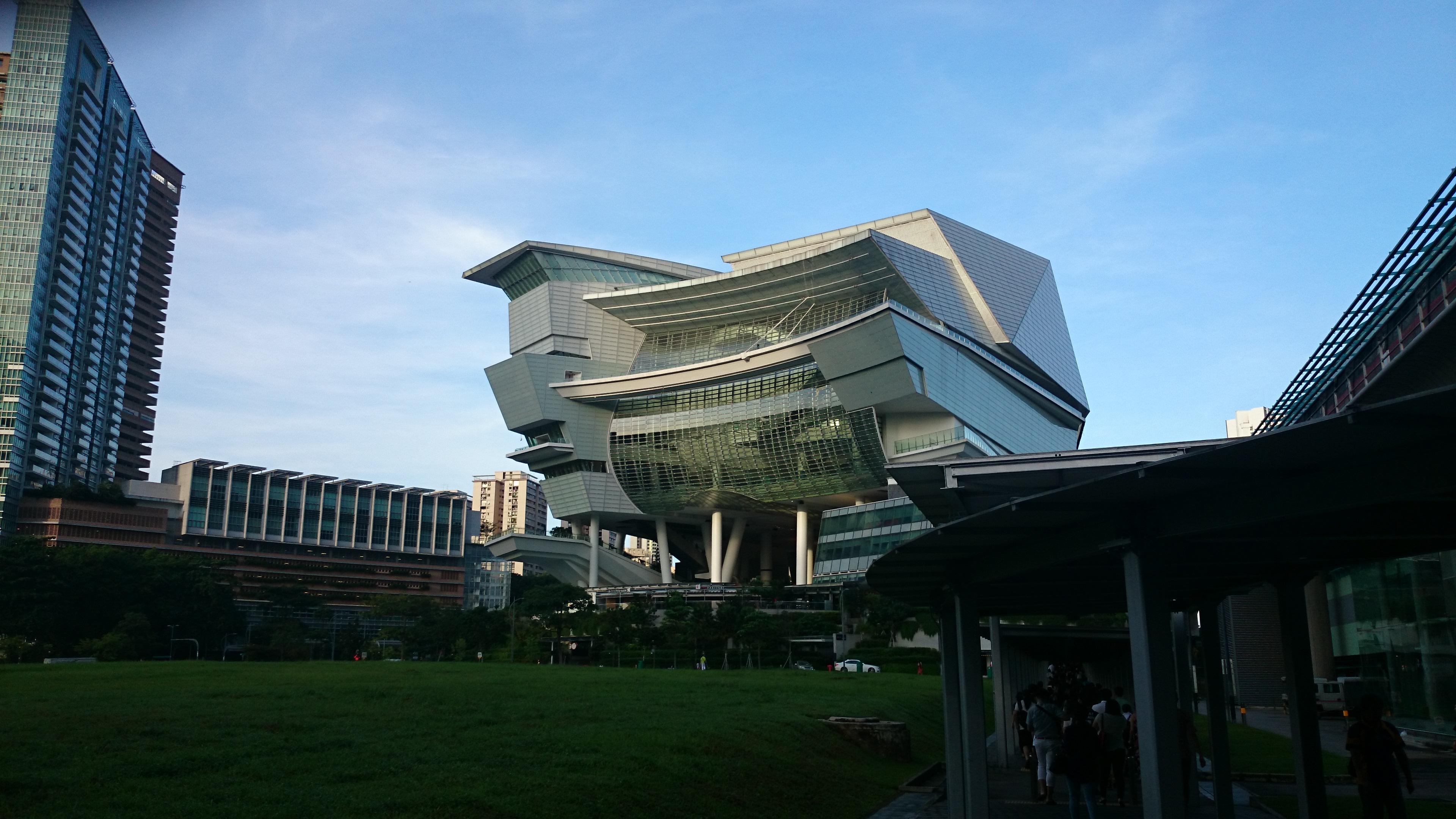 New Creation Church building. The MRT stop to get to the Church is Buona Vista.